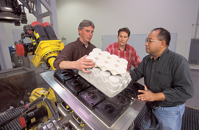 Packaging researchers remove the bottom part of a wine bottle carton from its mold. The carton was formed from a slurry of straw, water, and additives.